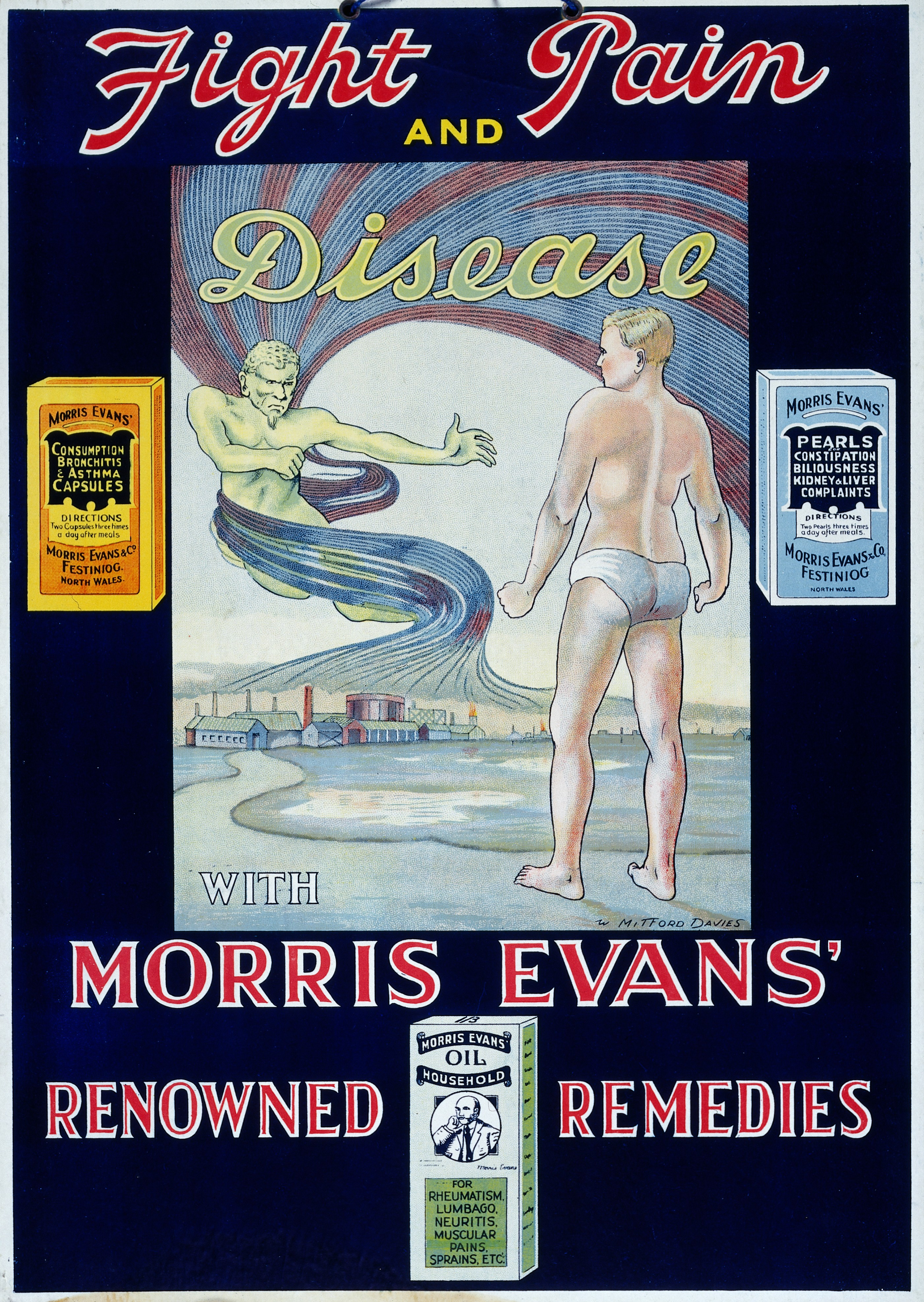 A confrontation between two figures, representing industrial diseases being challenged by health gained from use of Morris Evans' remedies. Colour lithograph incorporating a design by W. Mitford Davies. Iconographic Collections Keywords: W. Mitford Davies; Morris Evans & Co.